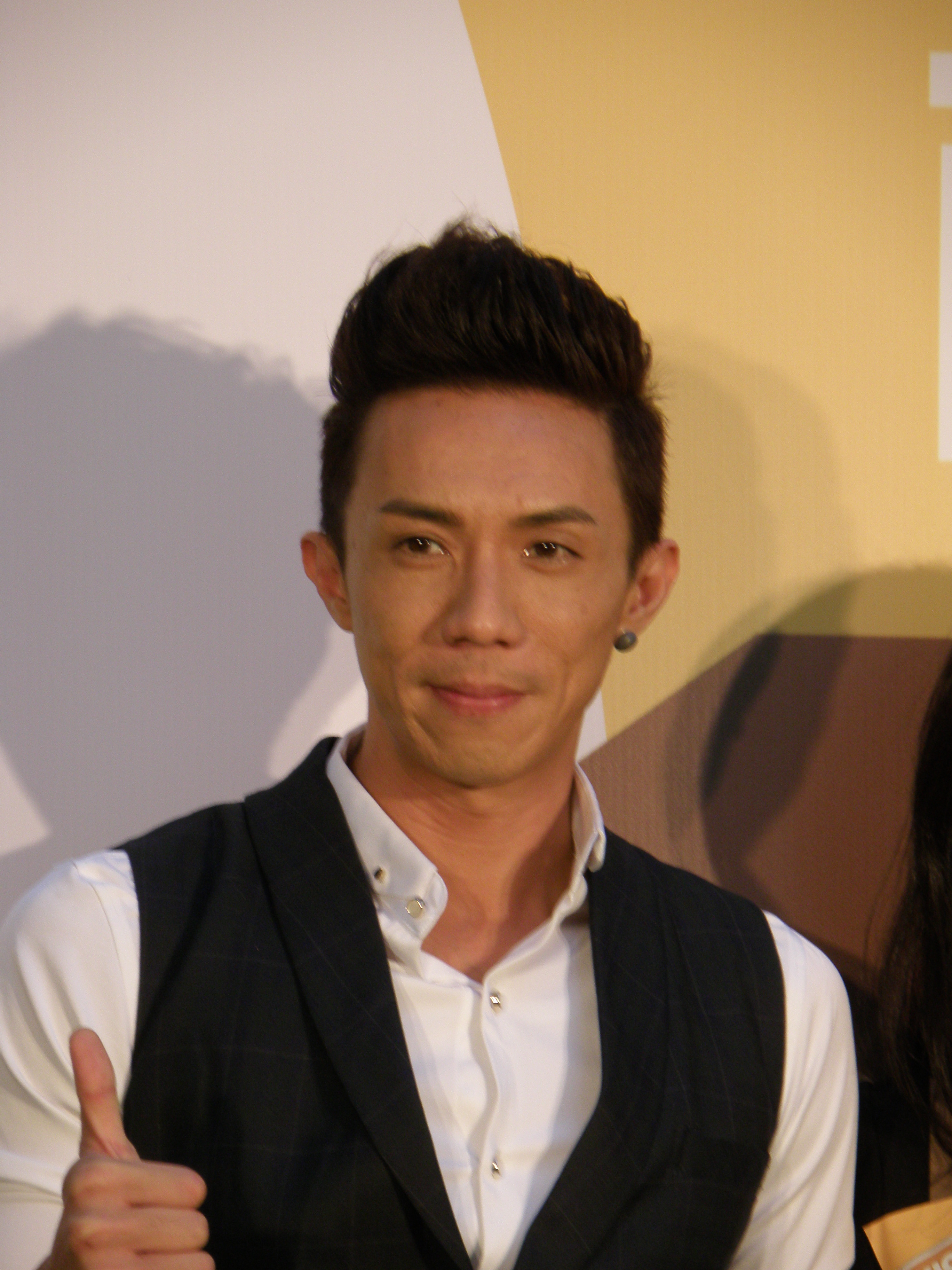 Louis Cheung, Hong Kong Cantopop recording-artist/songwriter and actor, attended a food promotion activity in Causeway Bay.